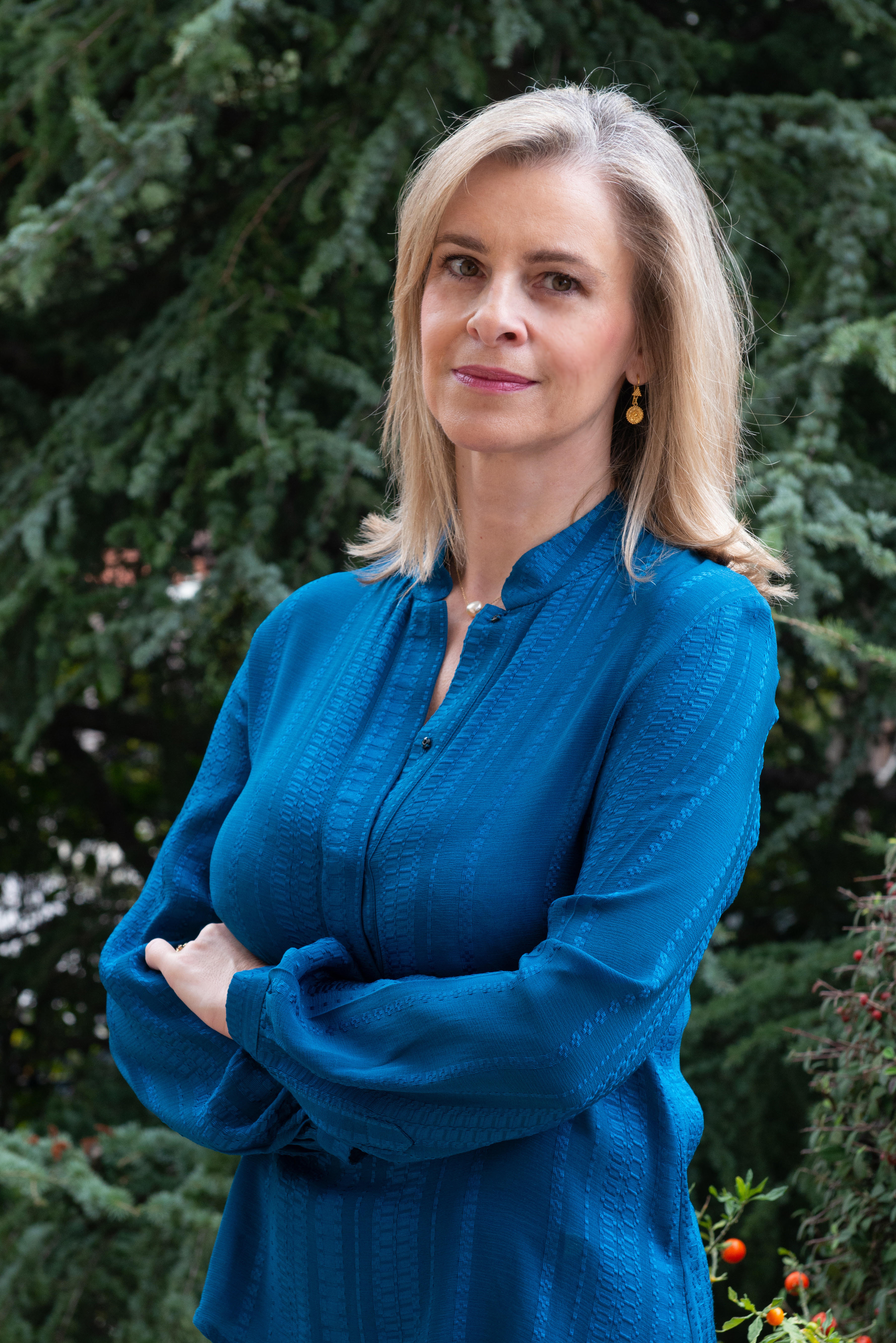 Konstantina E. Botsiou, Greek academic